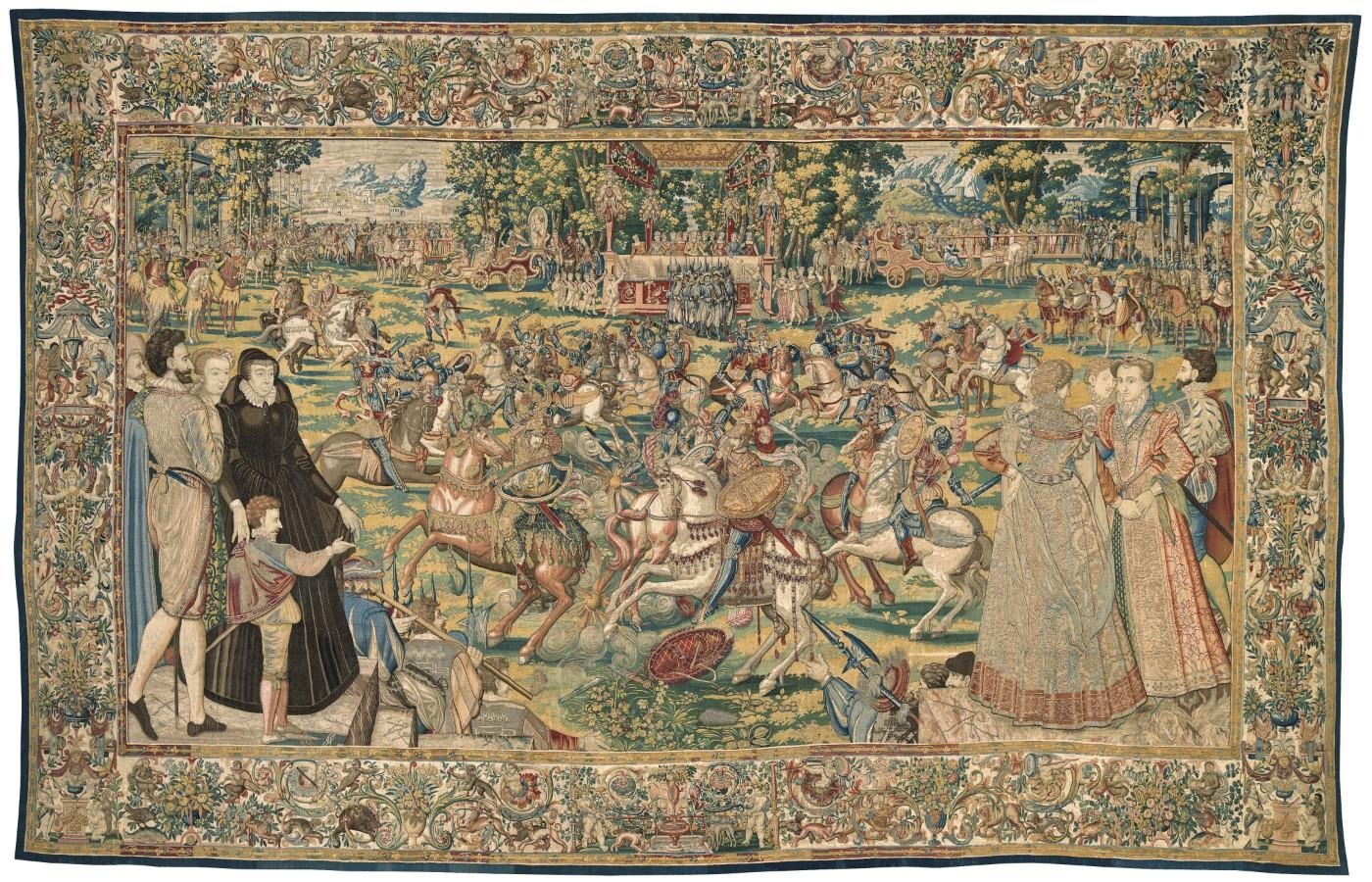 Tournament, from the Valois Tapestries. Cleveland Museum of Art.